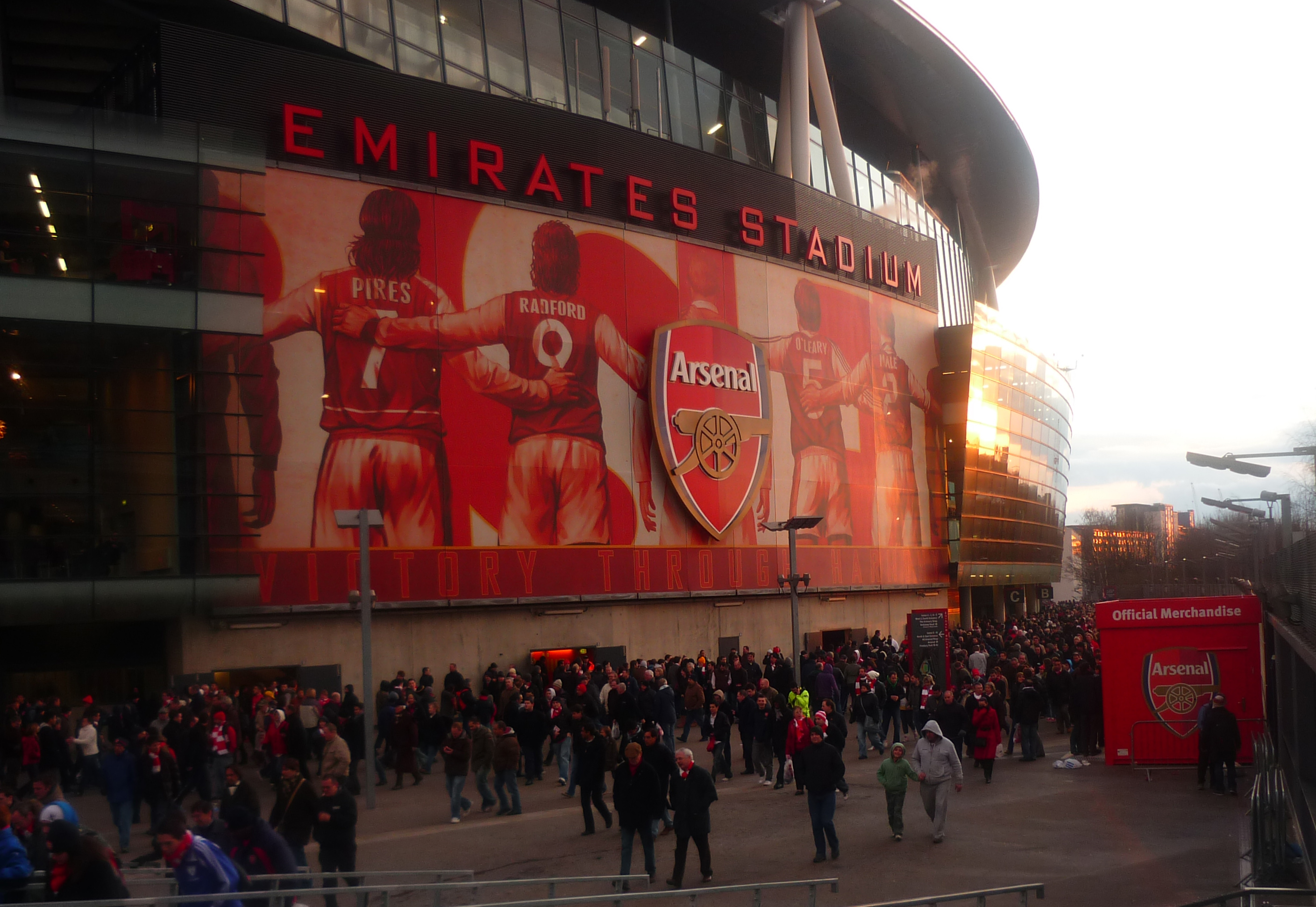 The Emirates Stadium View of one of series of murals on the exterior of Arsenal Football Club's Emirates Stadium, recalling famous players from its illustrious past. The photograph was taken after a 2-0 win over Sunderland in a Premier League match, 20 February 2010.